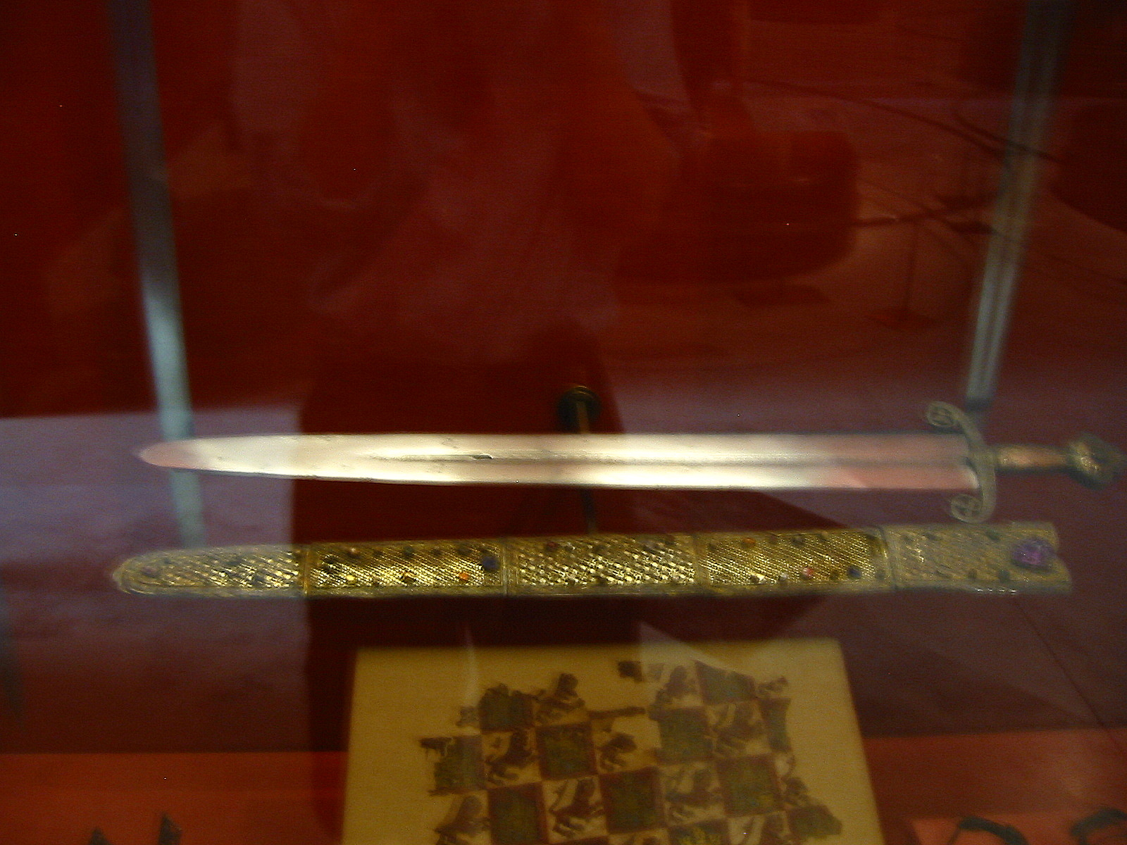 13th century sword (not El Cid's), exhibited at the Royal Armoury of Madrid (Catalogue number "G22", Catálogo histórico-descriptivo de la Real Armería de Madrid (1898)). In an old Inventory of the treasury of Segovia (1503), it was identified as Roland's sword, called the "Joyosa del bel cortar," but Hoffmeyer labels it as "The sword of San Fernando (or Alfonso el Sabio)" (Hoffmeyer (1982), pp. 44-47)